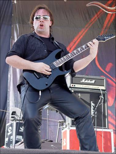 Fernando Mon performing live at on May 2006 at the Mägo de Oz Fest in Mexico.